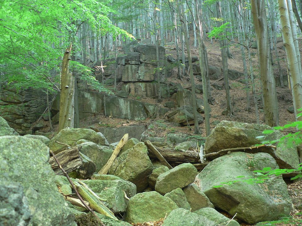 European Beech Woods, Jizera Mountains, Czech Republic